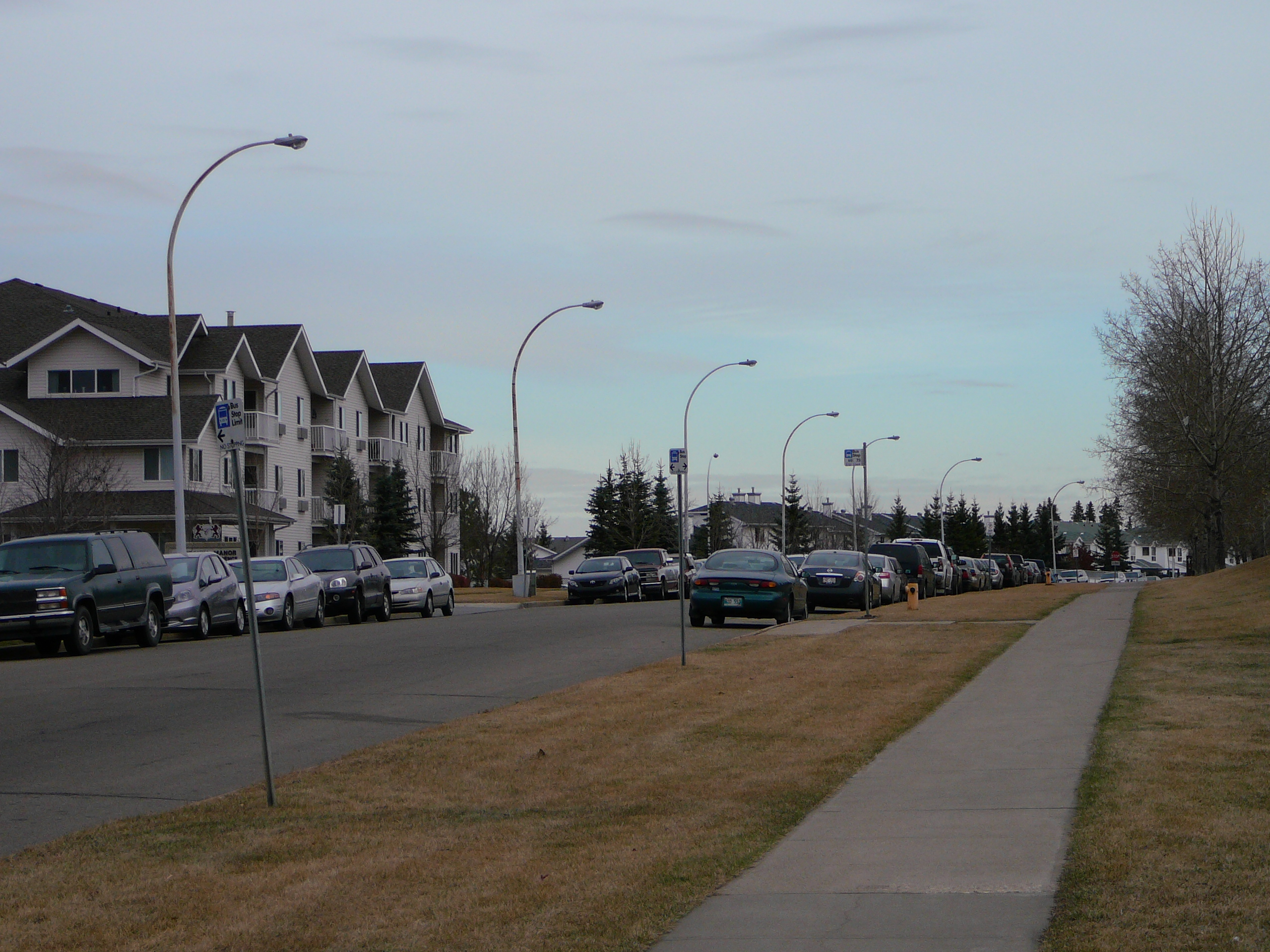 Youville Drive in the Edmonton, Canada, neighbourhood of Tawa